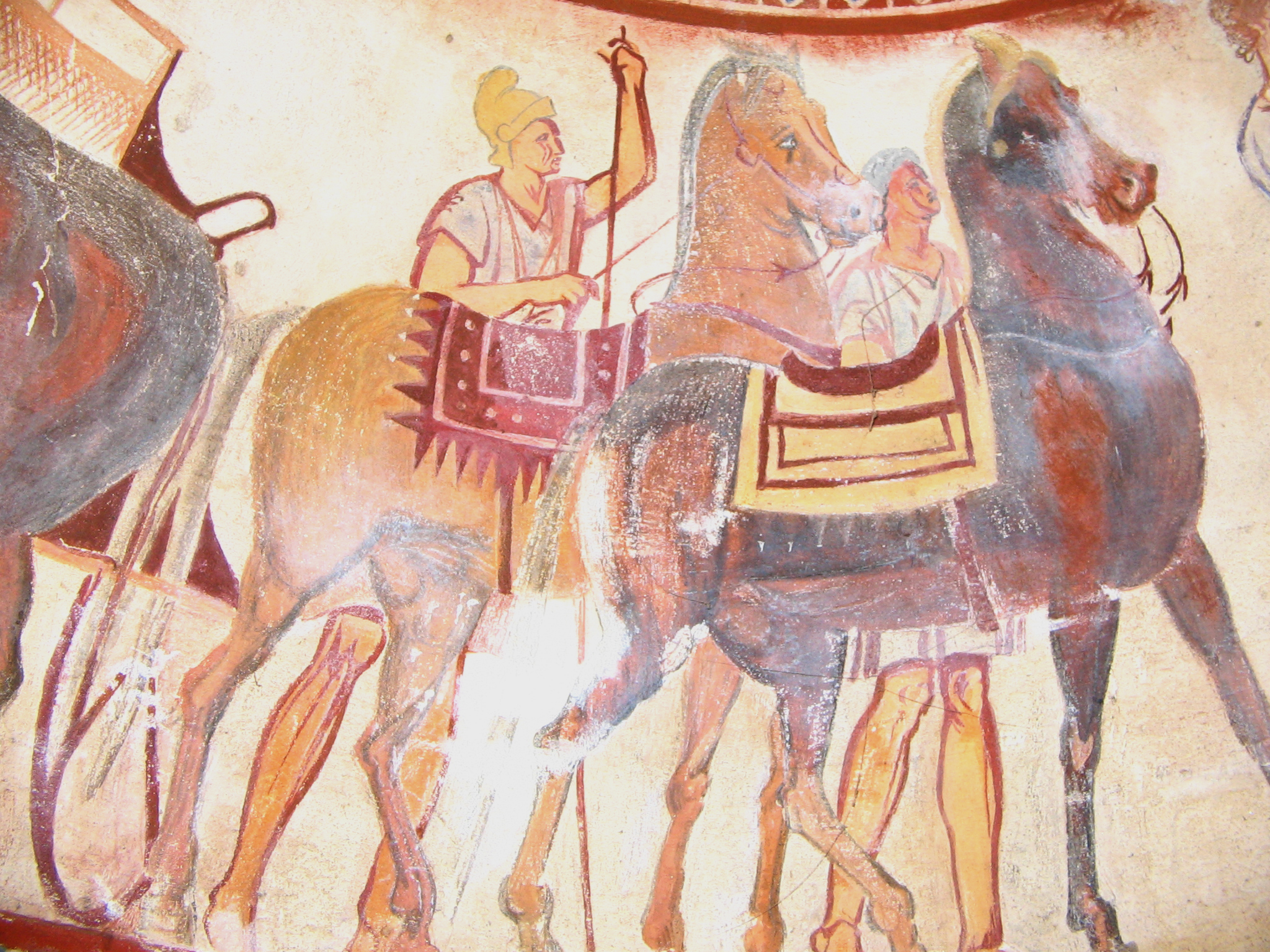 Scene of the frescoes in the thracian tomb near Kazanlak, Bulgaria